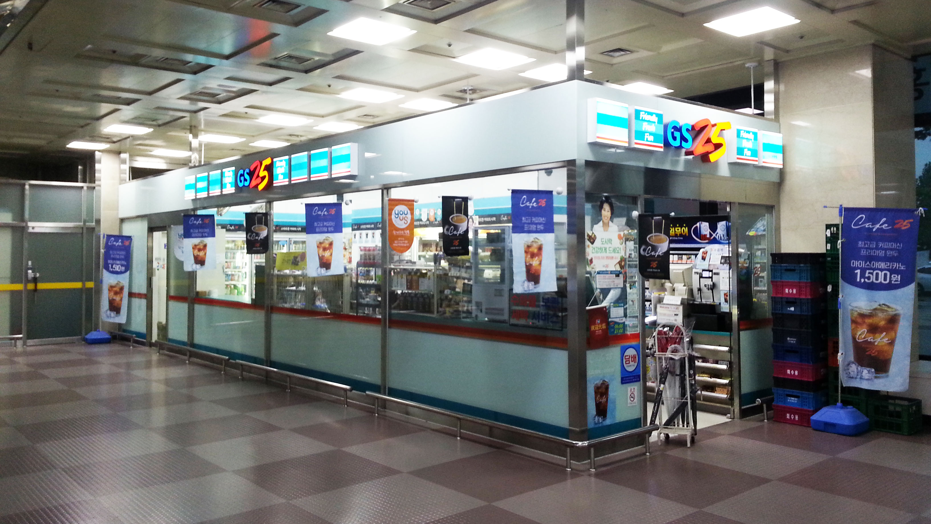 The Daegu Airport branch of GS25